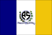 Flags of the city of Amparo da Serra, Minas Gerais, Brazil.